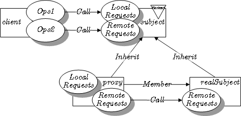 Proxy design pattern in the LePUS3 Design Description Language.